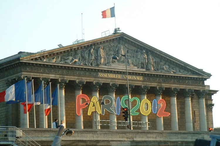 Taken in June 2005 of Paris' Asemblée Nationale during their bid for the 2012 Summer Olympics.